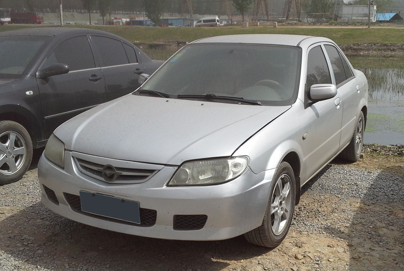 Haima Happin photographed in Zhengzhou, Henan province, China.